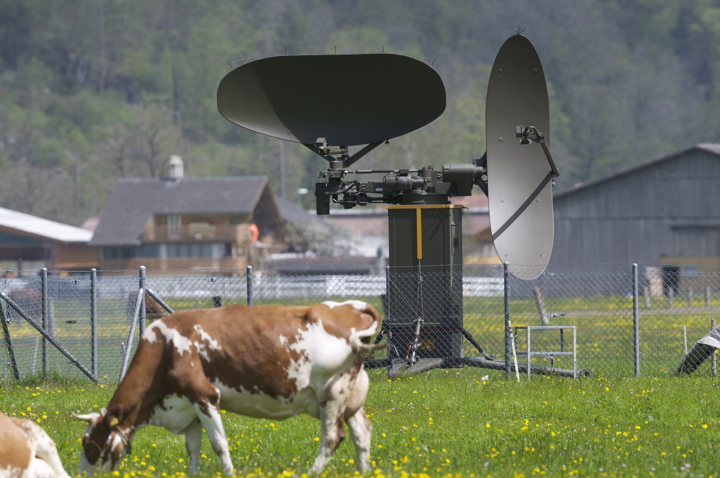 Meiringen Airbase on a busy day. Switzerland